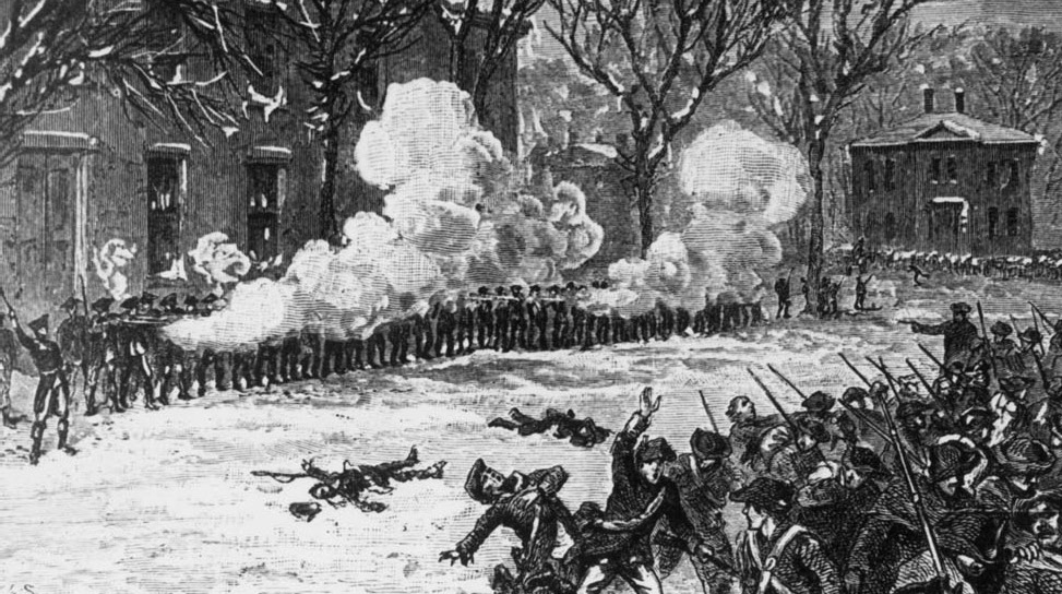 A 19th century depiction of Shays' troops being repulsed from the armory at Springfield, Massachusetts in early 1787; differing from accounts of the event as it was widely reported that no muskets were fired from either side but rather grapeshot was fired from cannons.